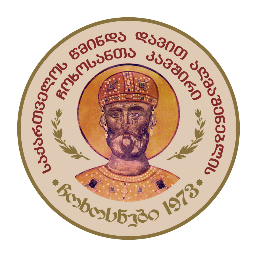 David the builder’s